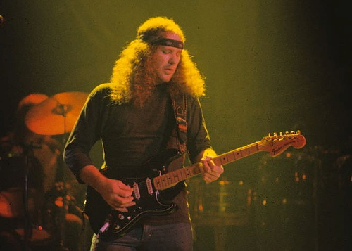 Hughie Thomasson performing